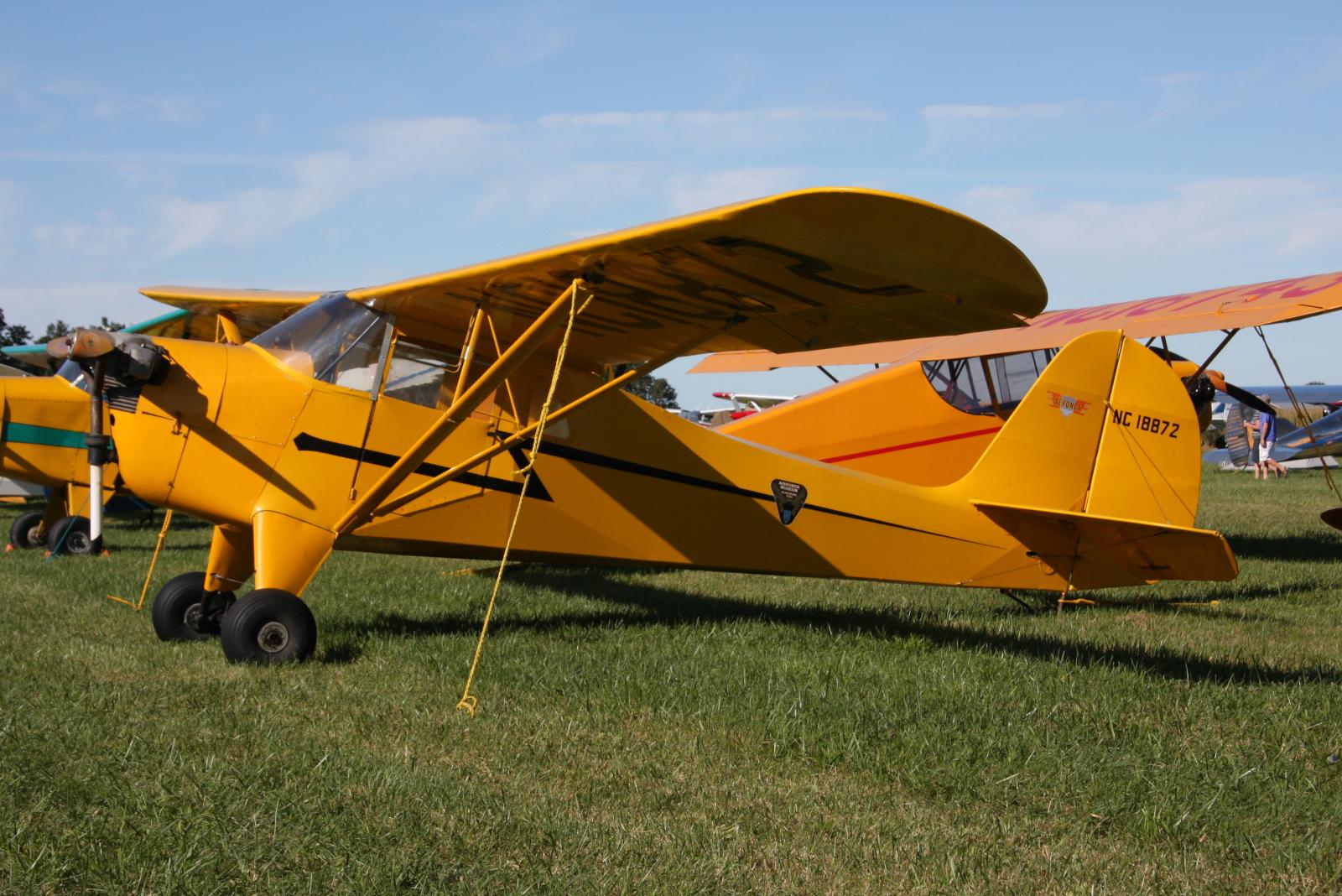 1937 Aeronca K C/N K-147